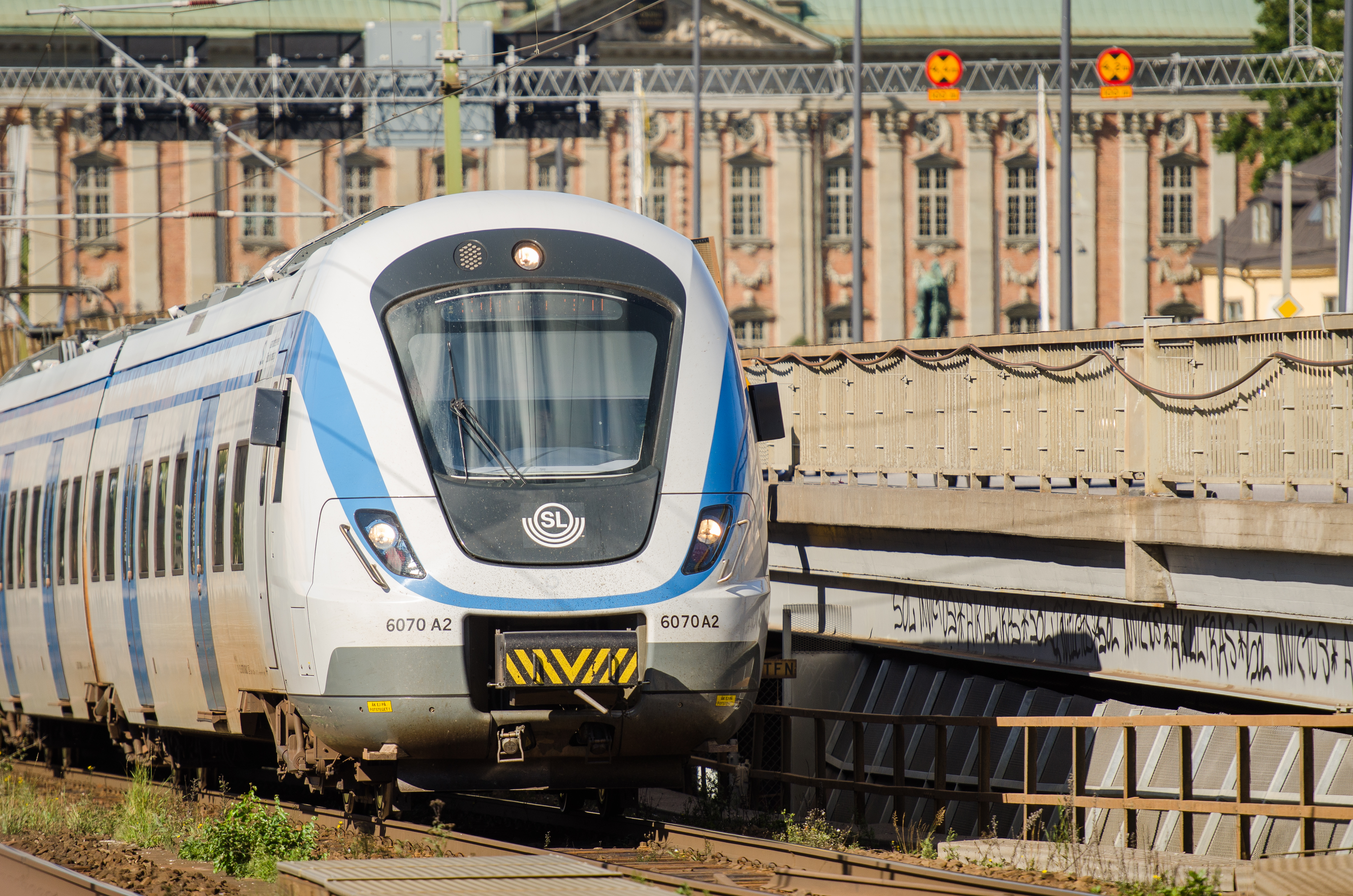 X60 commuter train (pendeltåg) at Riddarholmen, Stockholm. X60 is the designation of Greater Stockholm Transport's (SL) new Coradia Lirex-model commuter trains, which are replacing the older commuter trainsets.